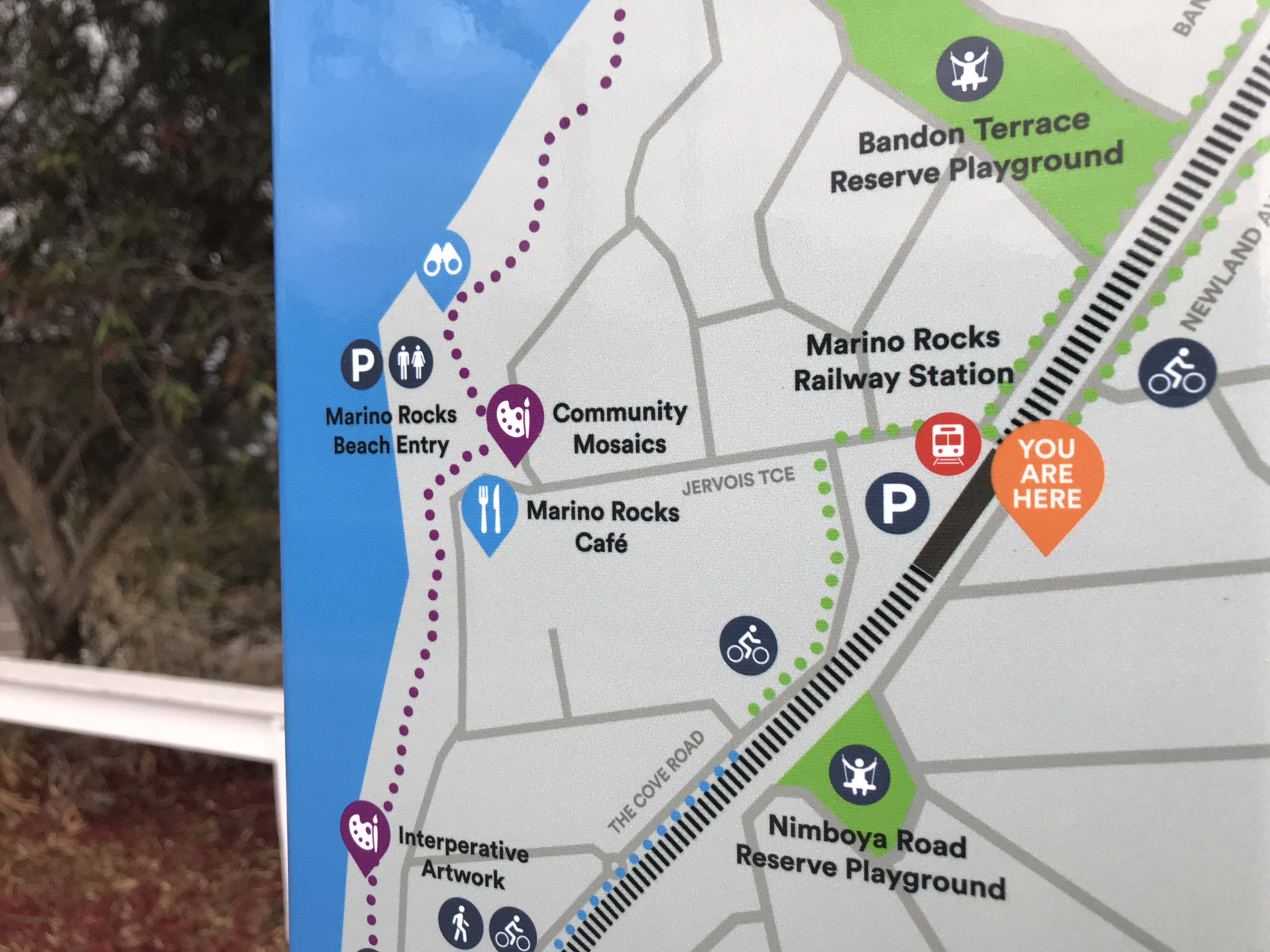 Marion Council signage at Marino Rocks station featuring a map and list of things to do and see, plus local artwork.